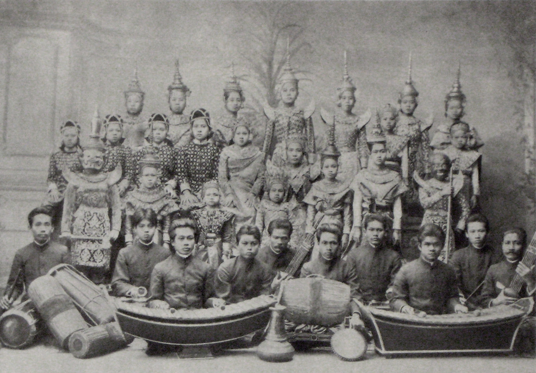 A theater group from Bangkok, Thailand (then Siam). Photo probably taken in Thailand prior to the ensemble's departure to Germany, where they performed in Berlin.